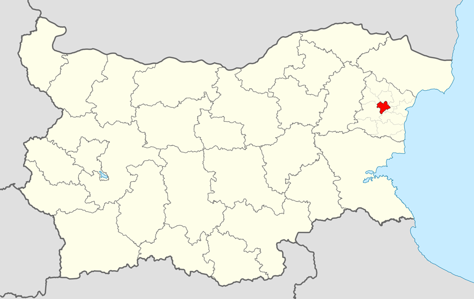 Location map of Devnya Municipality within Varna Province, Bulgaria. Equirectangular projection, N/S stretching 130 %. Geographic limits of the map: N: 44.4° N S: 41.1° N W: 22.1° E E: 28.9° E